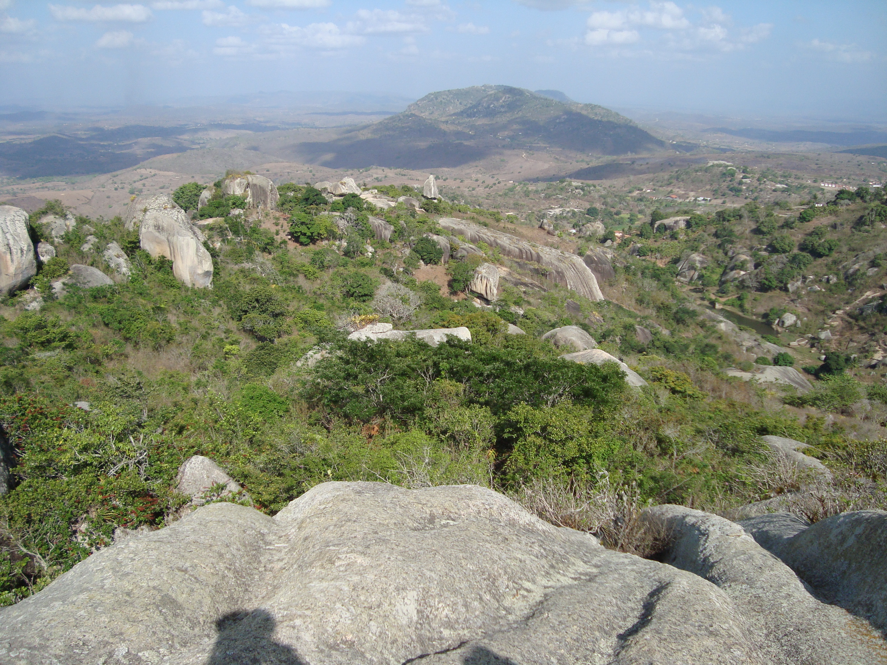 Serra do Bodopitá